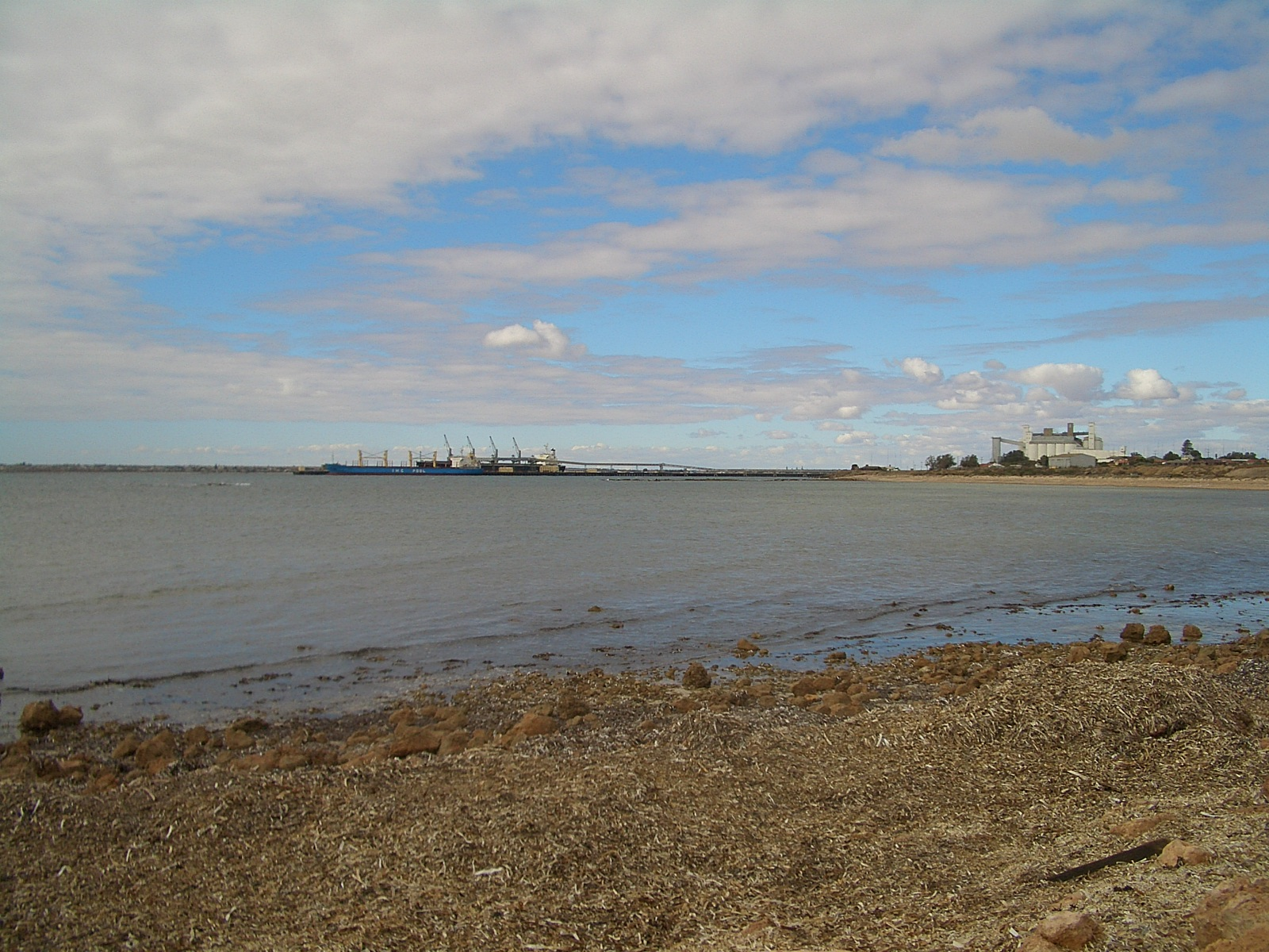 The port of Wallaroo (Yorke Peninsula, South Australia), seen from the south.